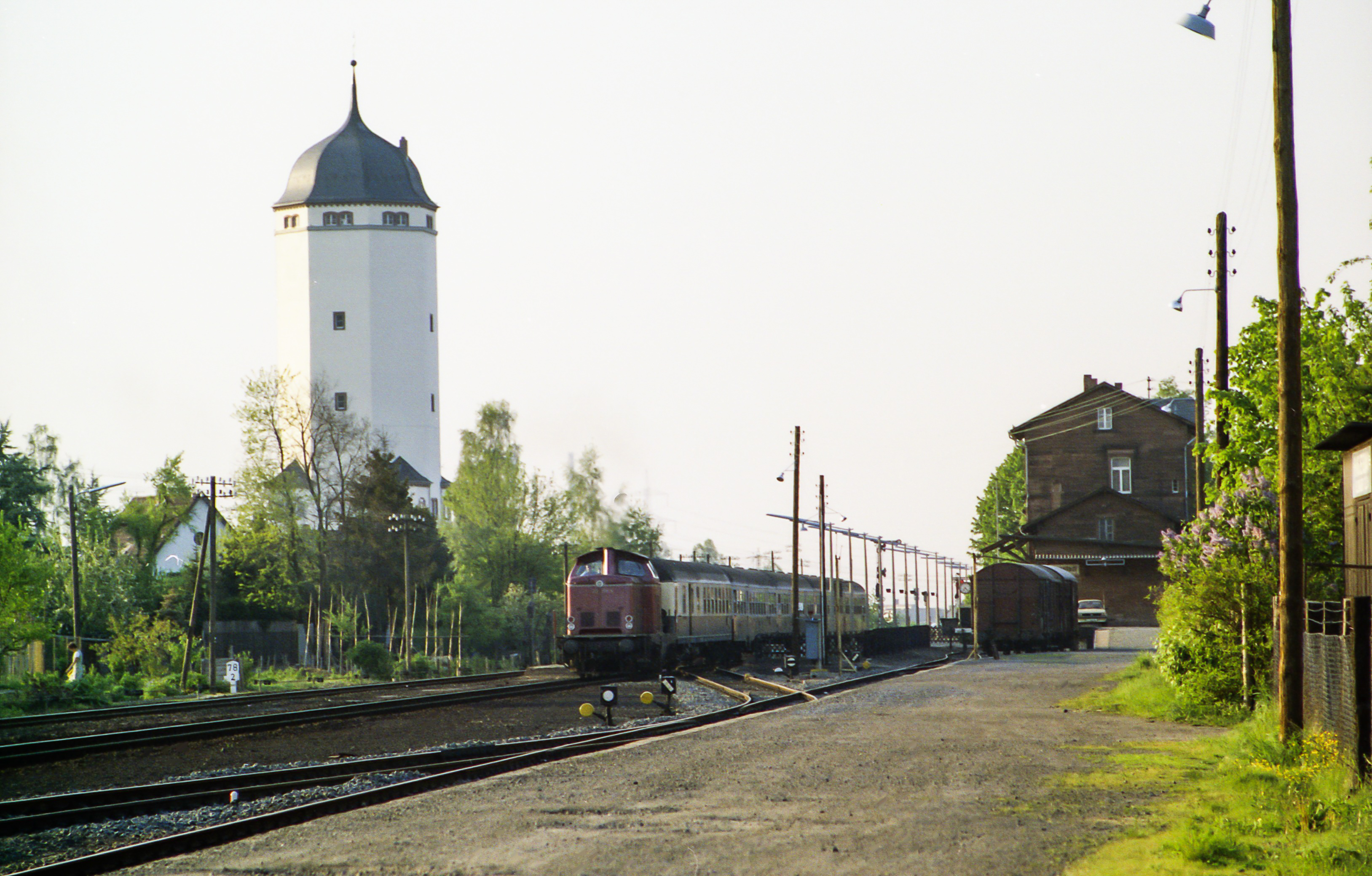 Locomotive 212 358-6 (Hanau depot) in front of train E 2357 (Frankfurt / M Hbf - Stuttgart Hbf) at the departure in Seligenstadt (Hesse) on May 14, 1980, in the background the historic water tower